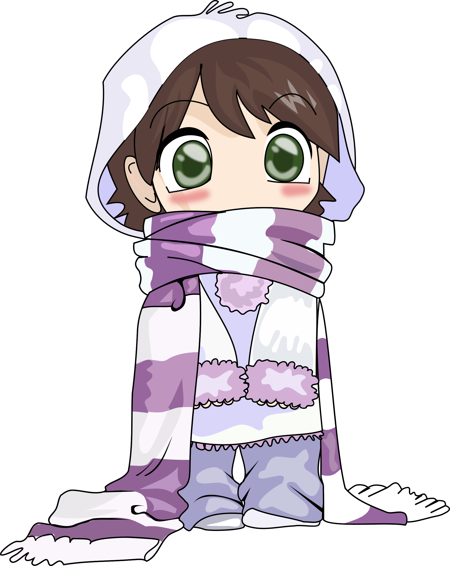 a anime child